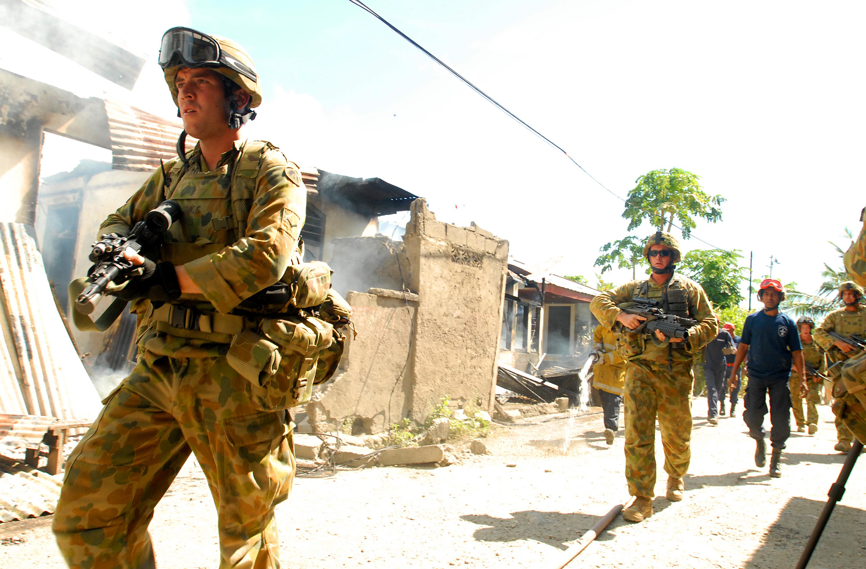 Timor - ISF: Australian support to Dili Fire Service 'A platoon from the 3rd Battalion Group provides security to the Dili Fire Service'. Photographer- LAC Rodney Welch. (2 June 06)